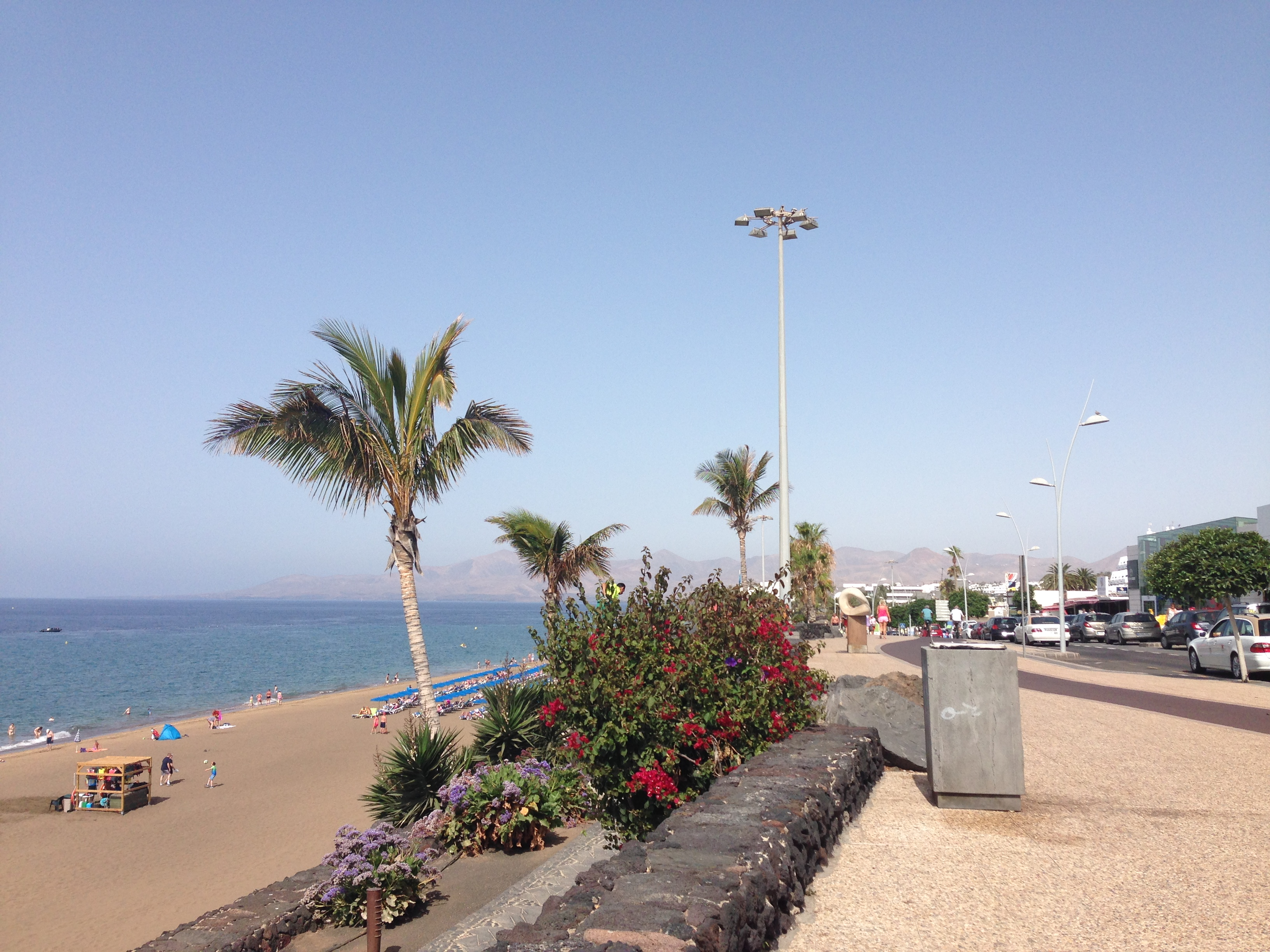 Puerto del Carmen beach, Lanzarote, 29/07/2015